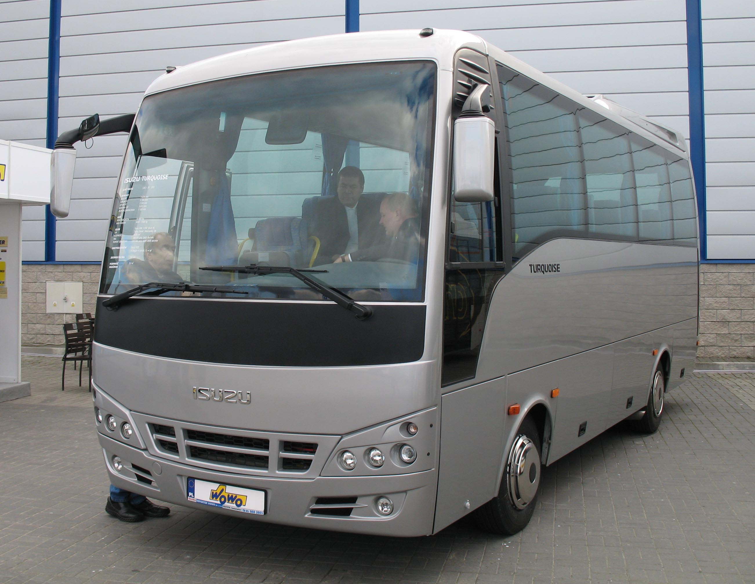 Isuzu Turquoise minibus in Kielce, Poland. Transexpo 2007. Built Anadolu Isuzu in Turkey.